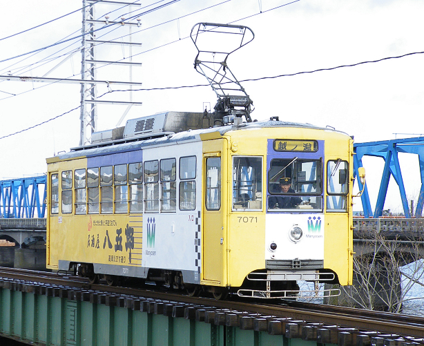 Type DE7070 (No.7071) of Manyo line, Imizu city, Japan.